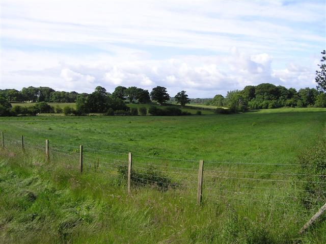 Artnagross Townland Looking north